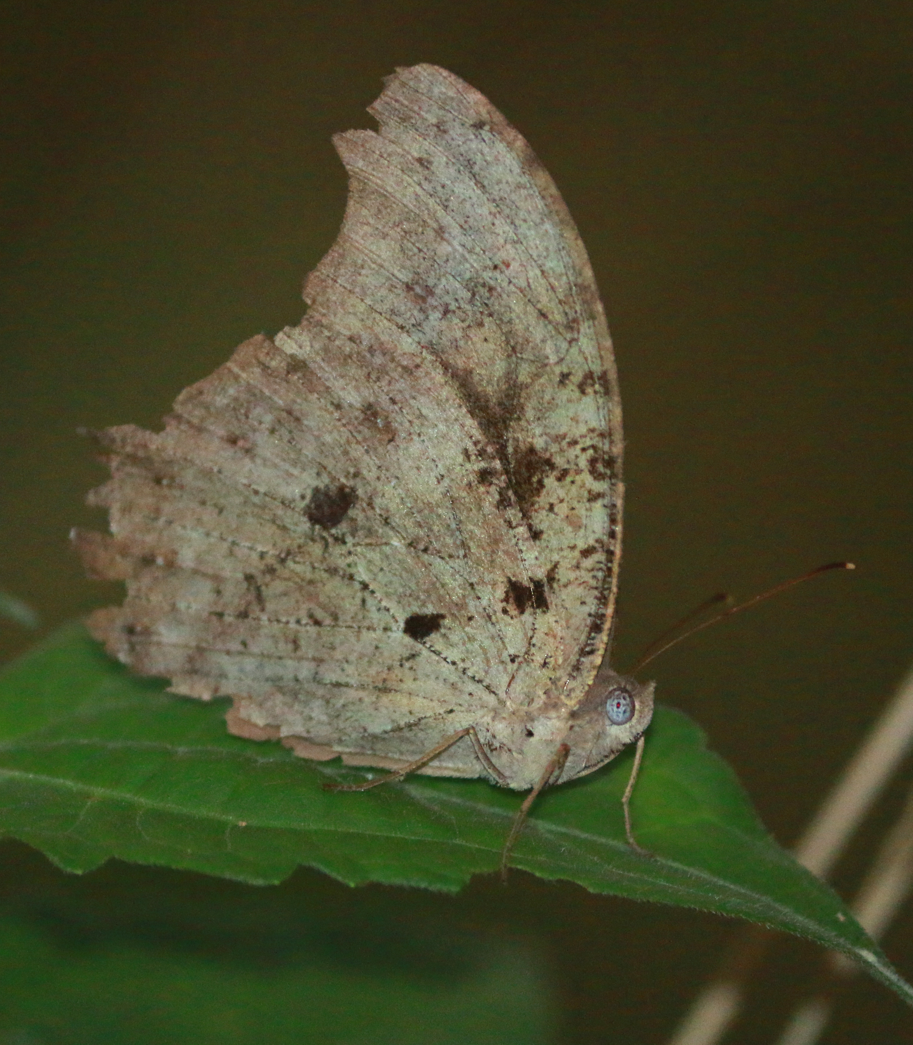 Common evening brown